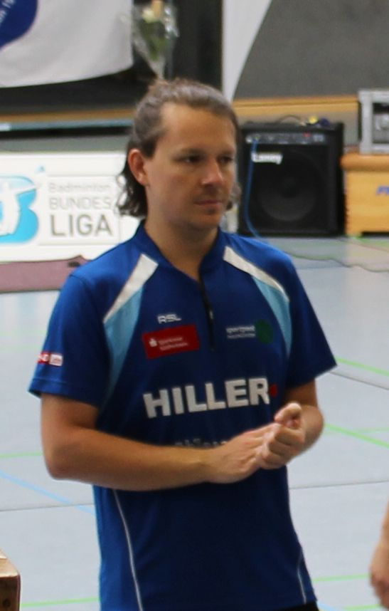 Rafal Hawel